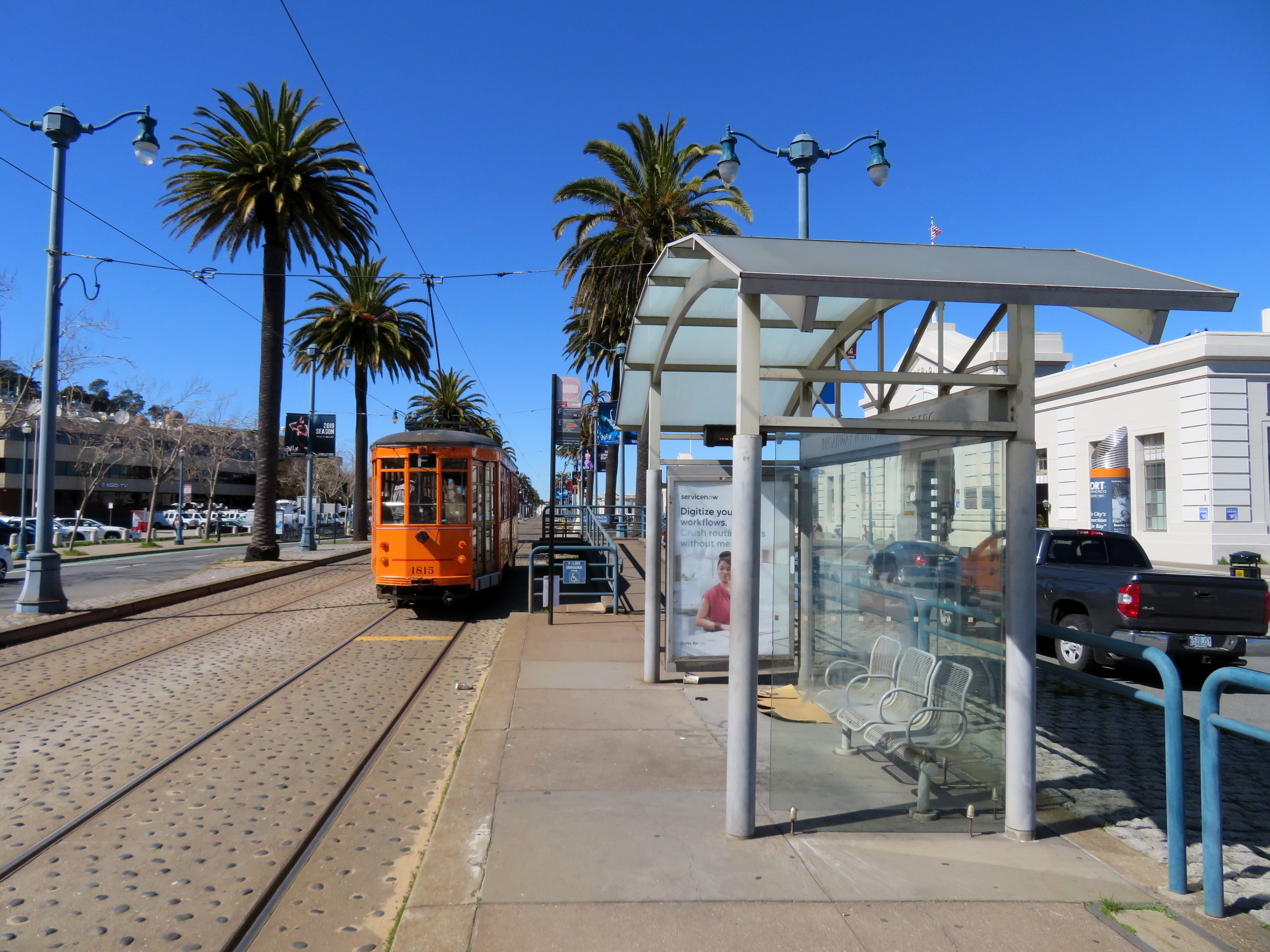 Muni 1815 northbound at Broadway and The Embarcadero station in March 2019